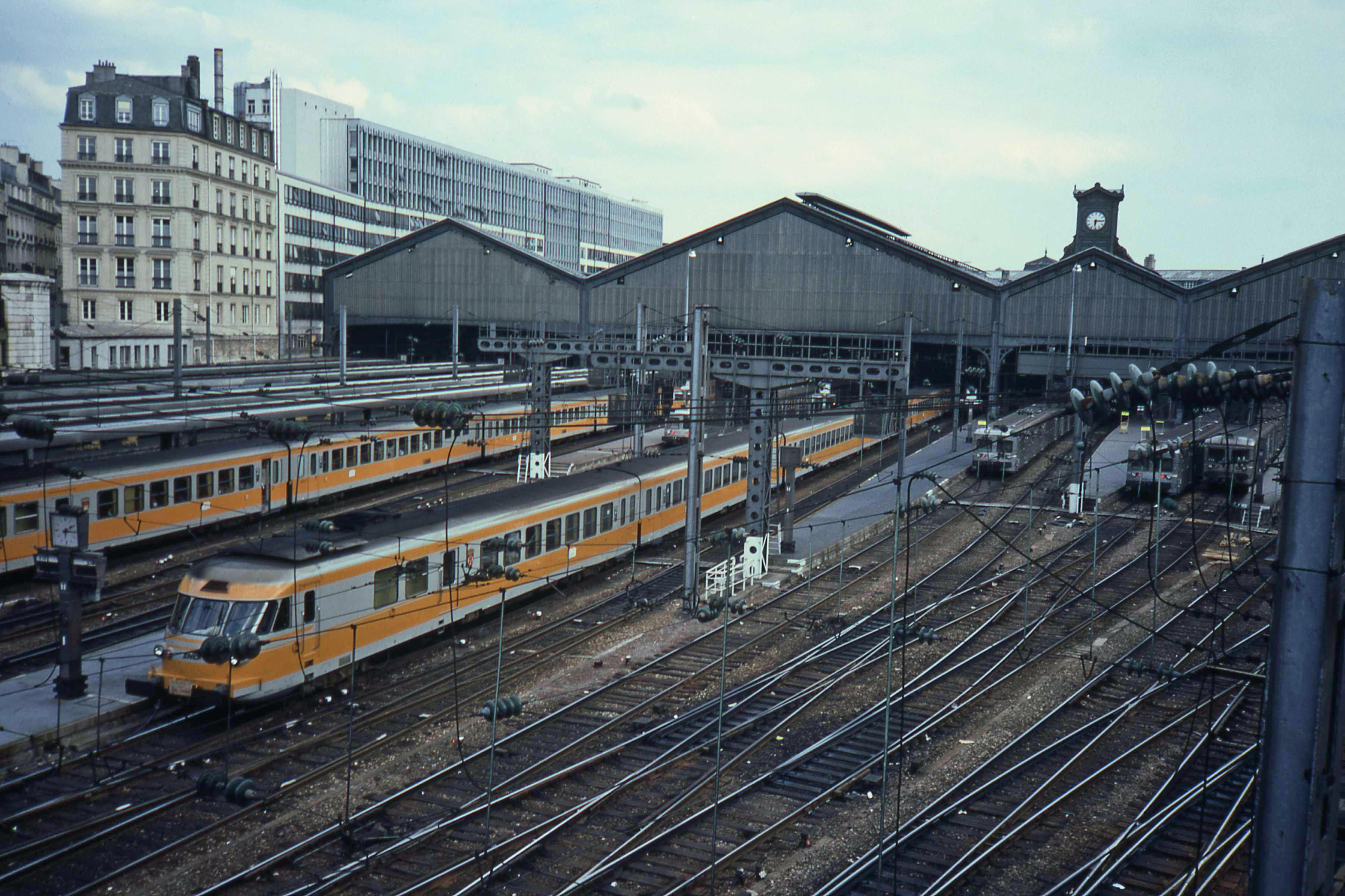 St.Lazare station in 1984, with a lot of turbotrains.